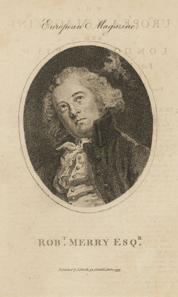 Illustration presumably depicting Robert Merry (1755-1798), from an unidentified book or magazine. Page from a scrapbook of his manuscripts. MS Eng 994, Houghton Library, Harvard University